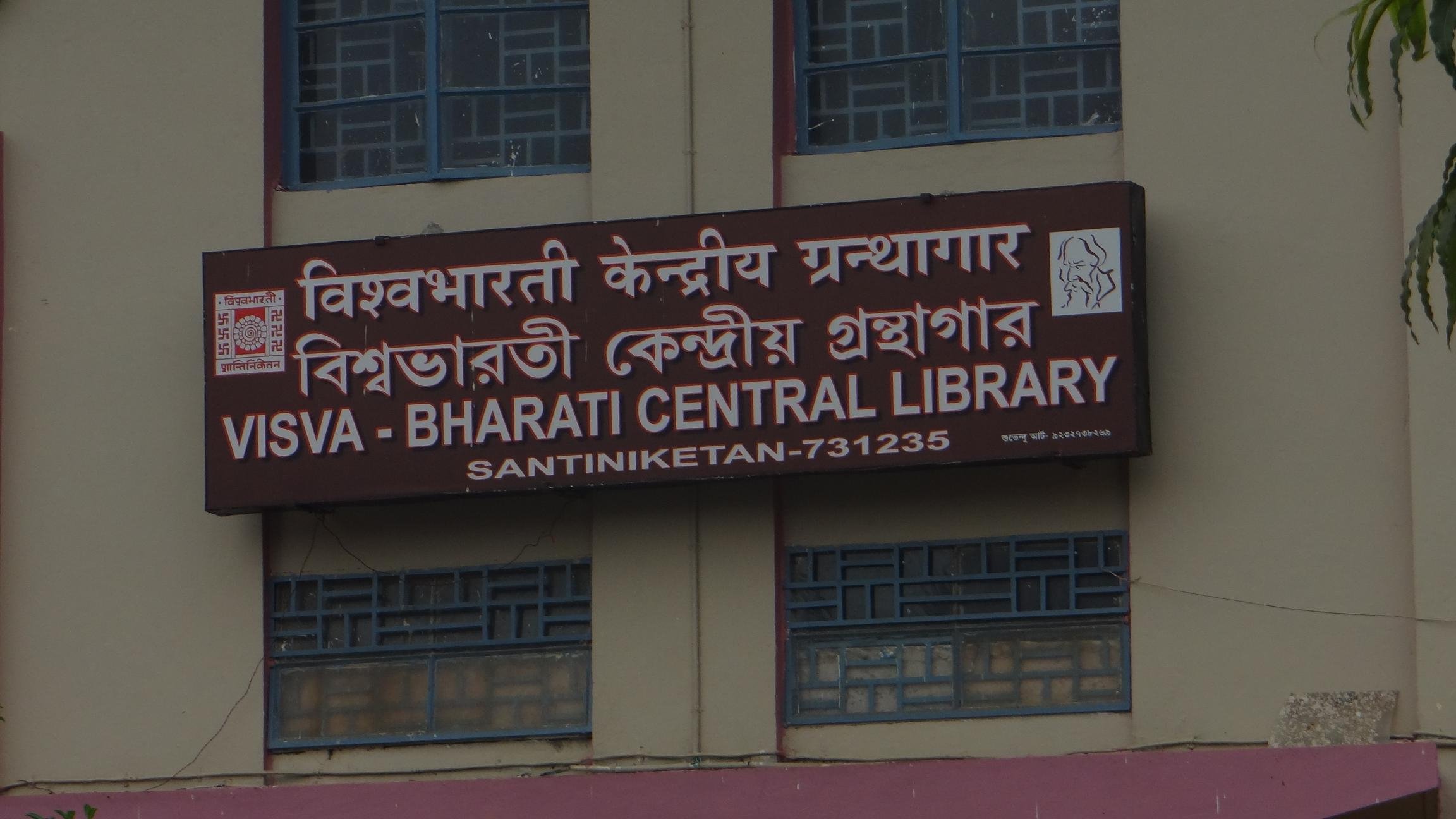 Visva-Bharati Central Library, Bolpur Santiniketan